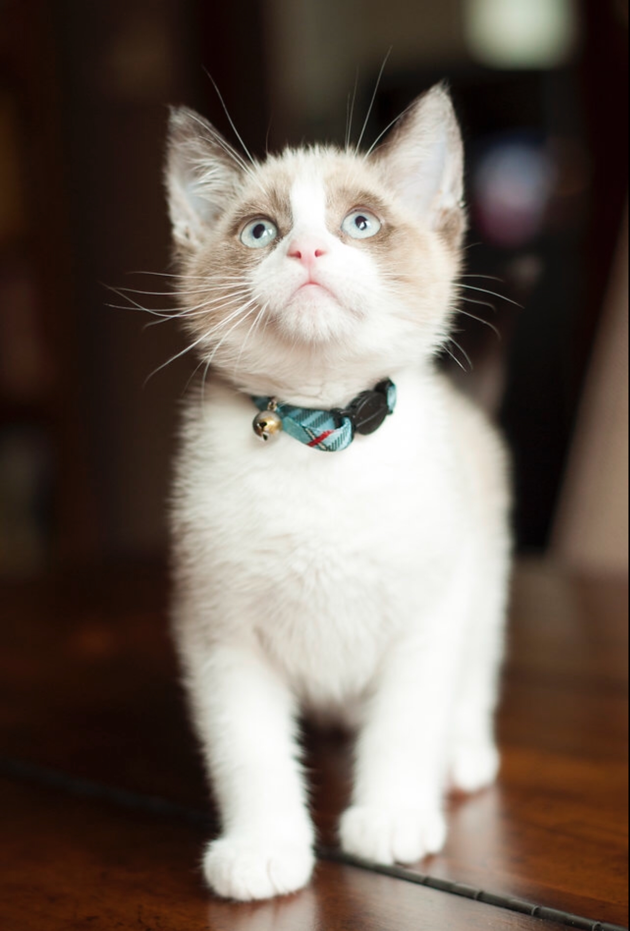 Ragdoll Kitten